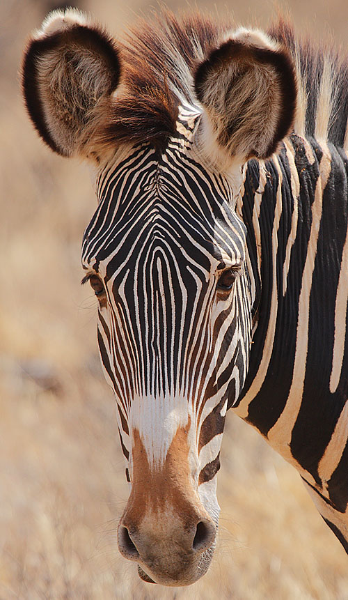 Headshot of a Grevy's Zebra stallion. Image taken at Buffalo Springs NP, Kenya.